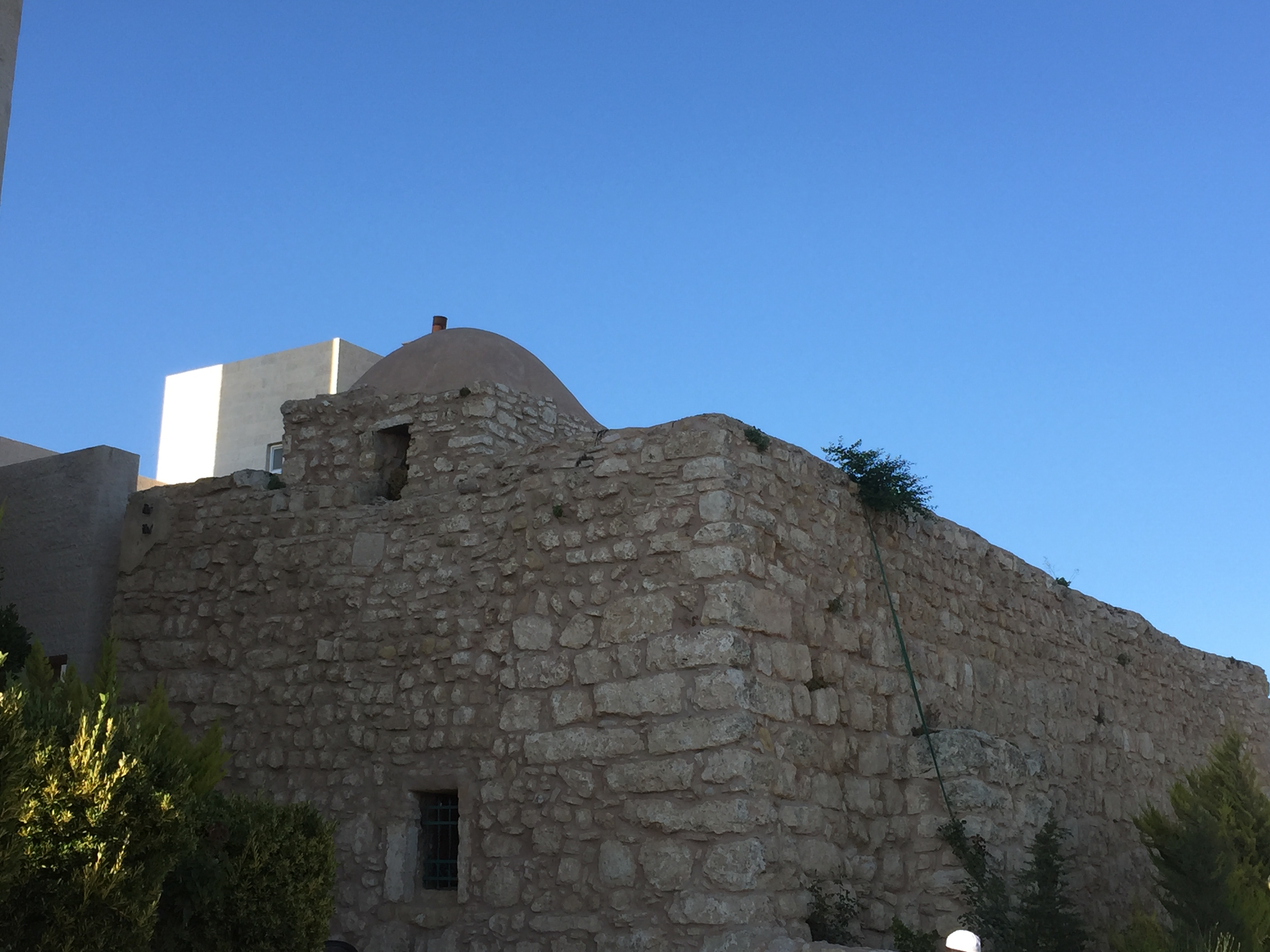 Prophet Joshua's Tomb in Jordan